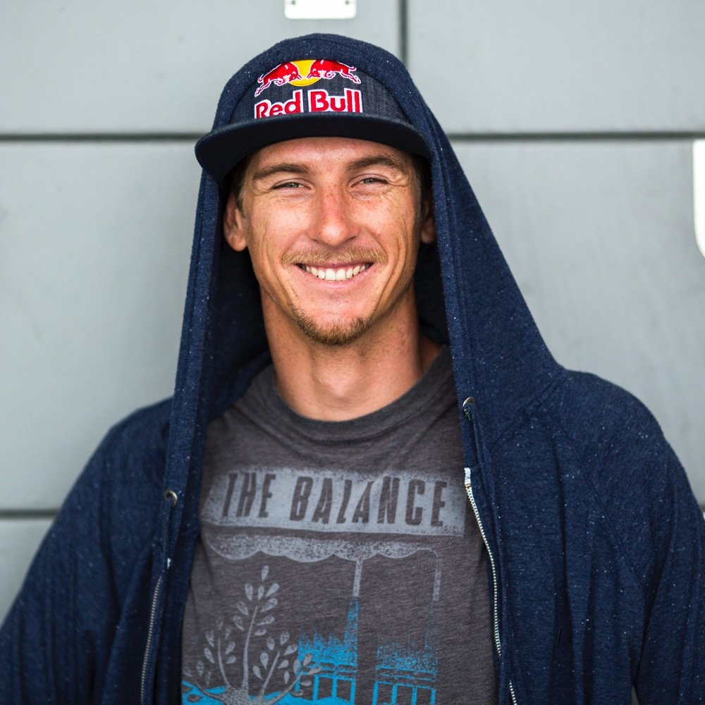 Profile picture